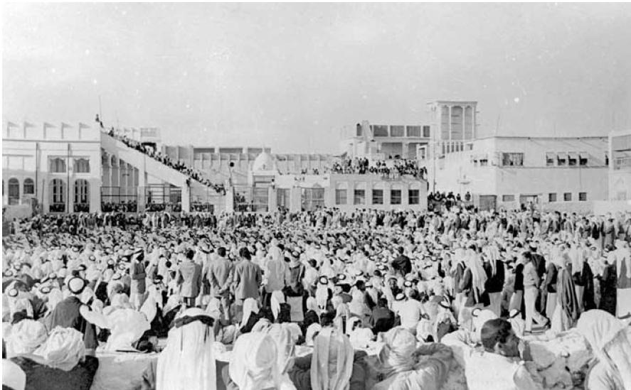 هيئة الاتحاد الوطني